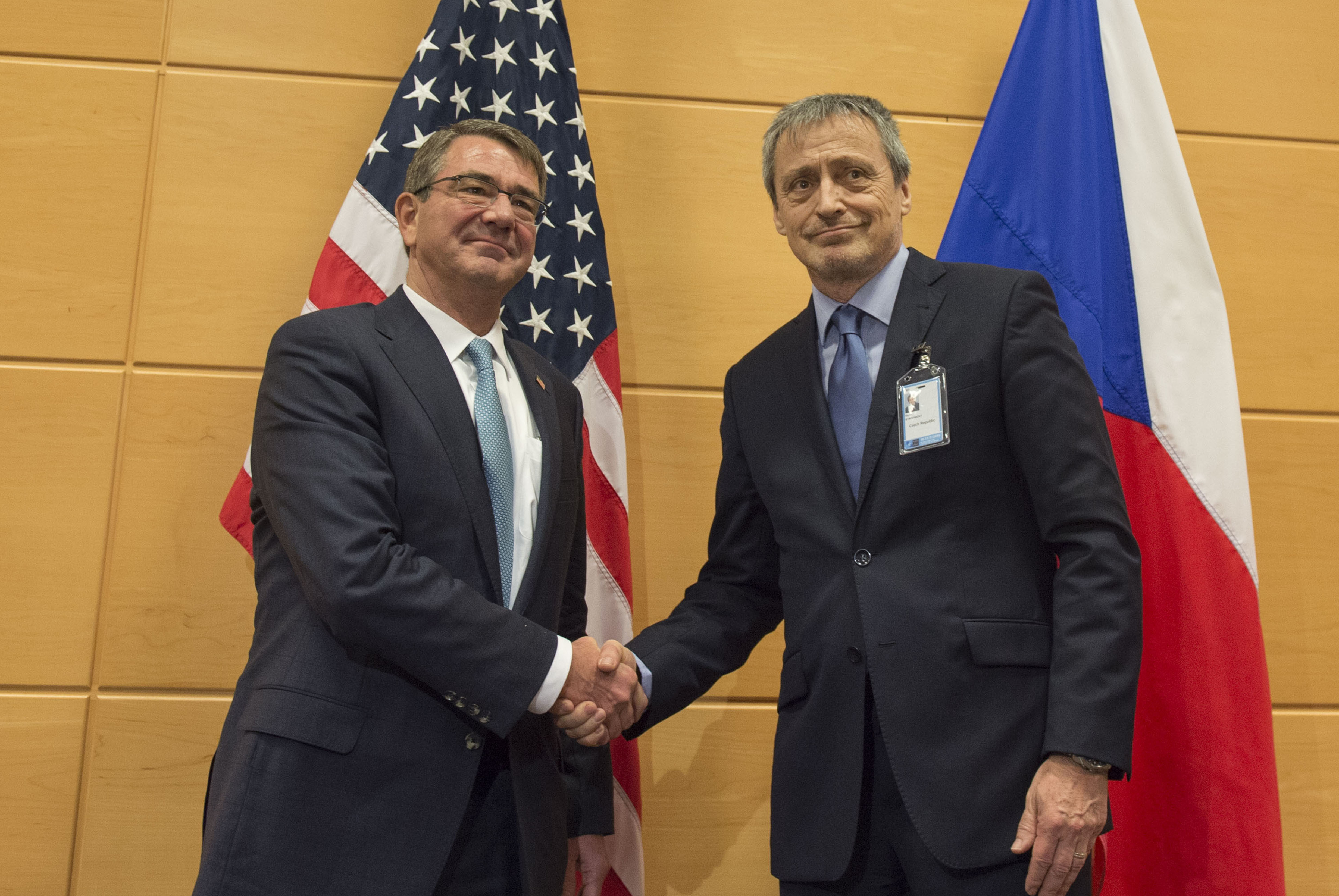 Secretary of Defense Ash Carter greets the Minister of Defense of the Czech Republic Martin Stropnický as they meet at NATO headquarters in Brussels, Belgium to discuss matters of mutual importance Feb. 10, 2016 (Photo by Senior Master Sgt. Adrian Cadiz)(Released)